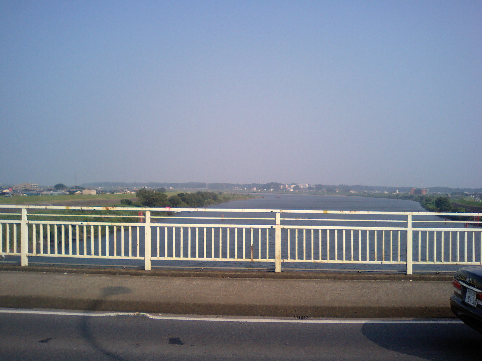 View of the Tone River from Sakae Bridge